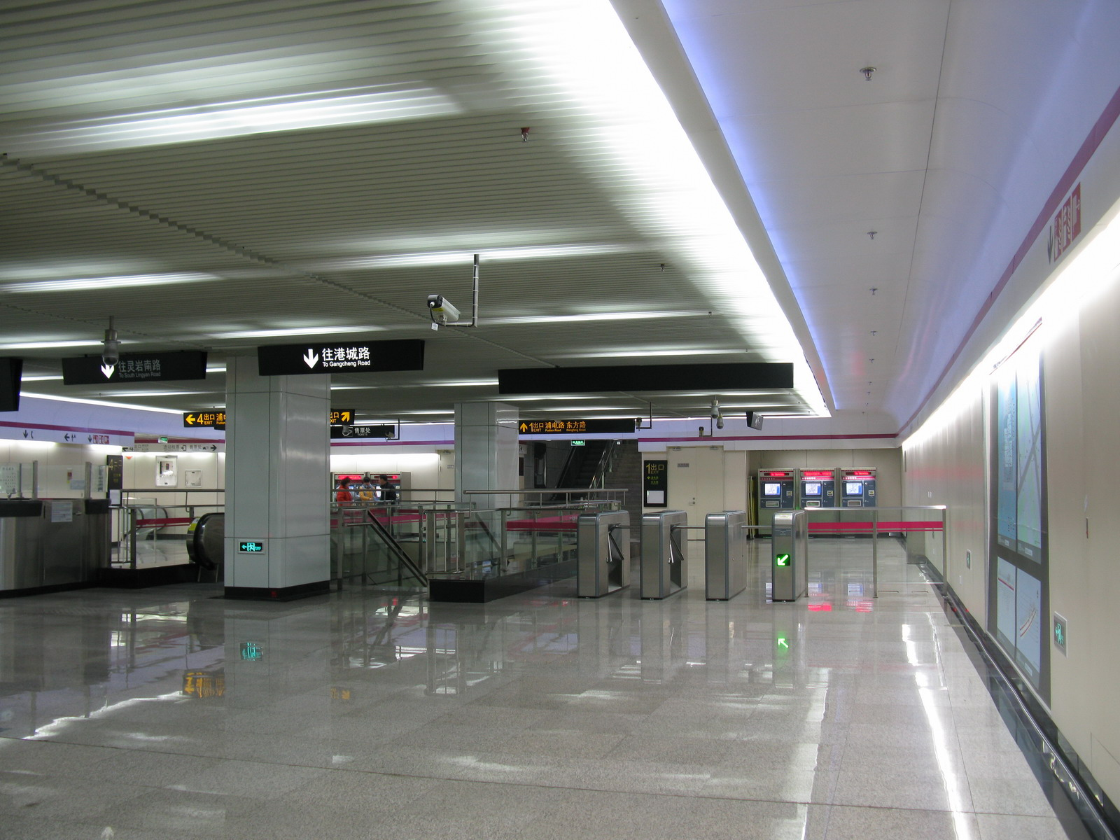 浦电路站 6号线大堂 Line 6 Concourse of Pudian Road Station